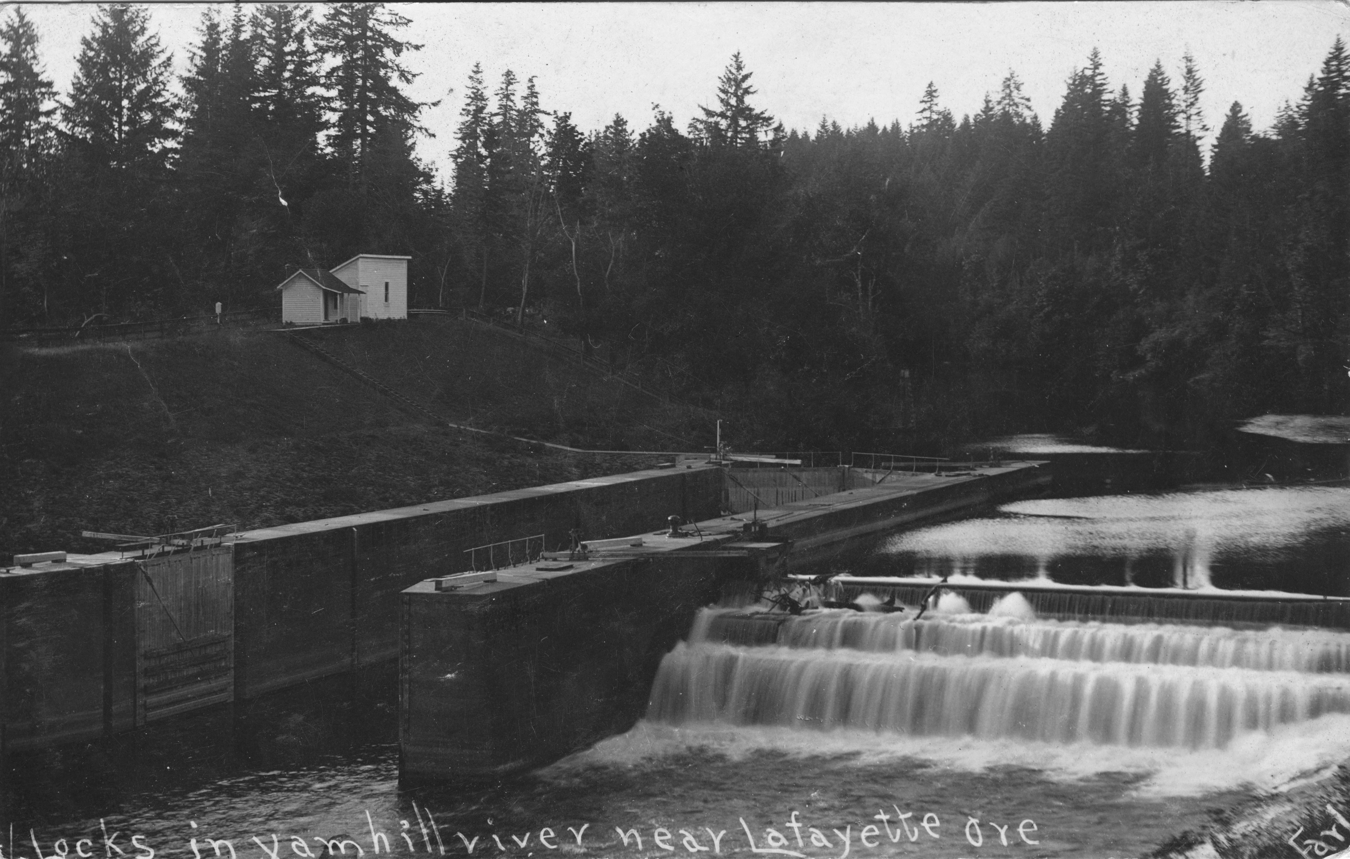 Original Collection: Gerald W. Williams Collection Item Number: WilliamsG:WV Yamhill locks You can find this image by searching for the item number by clicking here. Want more? You can find more digital resources online. We're happy for you to share this digital image within the spirit of The Commons; however, certain restrictions on high quality reproductions of the original physical version may apply. To read more about what “no known restrictions” means, please visit the Special Collections & Archives website, or contact staff at the OSU Special Collections & Archives Research Center for details.